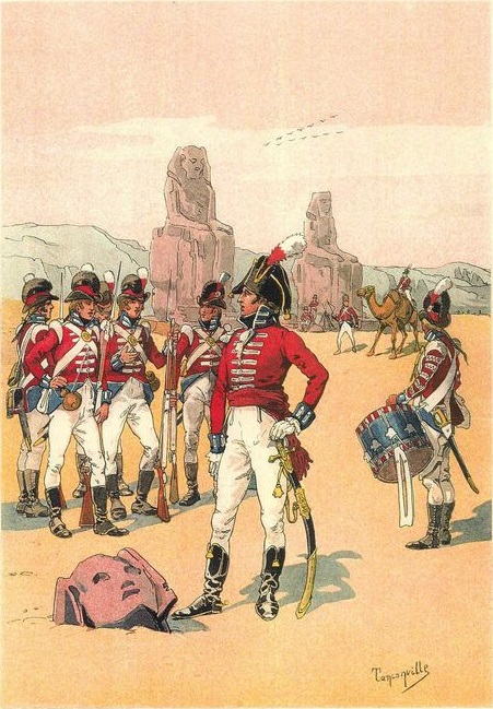 De Roll's Regiment on campaign in Egypt